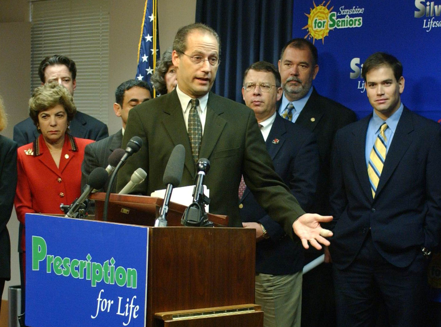 Rep. Dan Gelber, D-Miami Beach, center, makes a point in a news conference about the Prescription Drugs for Seniors Bill during the 2003 Legislature - Tallahassee, Florida Personal Subject Gannon, Annie, 1947- Gottlieb, Ken, 1963- Kyle, Bruce, 1969- Rich, Nan H., 1942- Gelber, Dan, 1960- Kendrick, Will S., 1960- Rubio, Marco, 1971